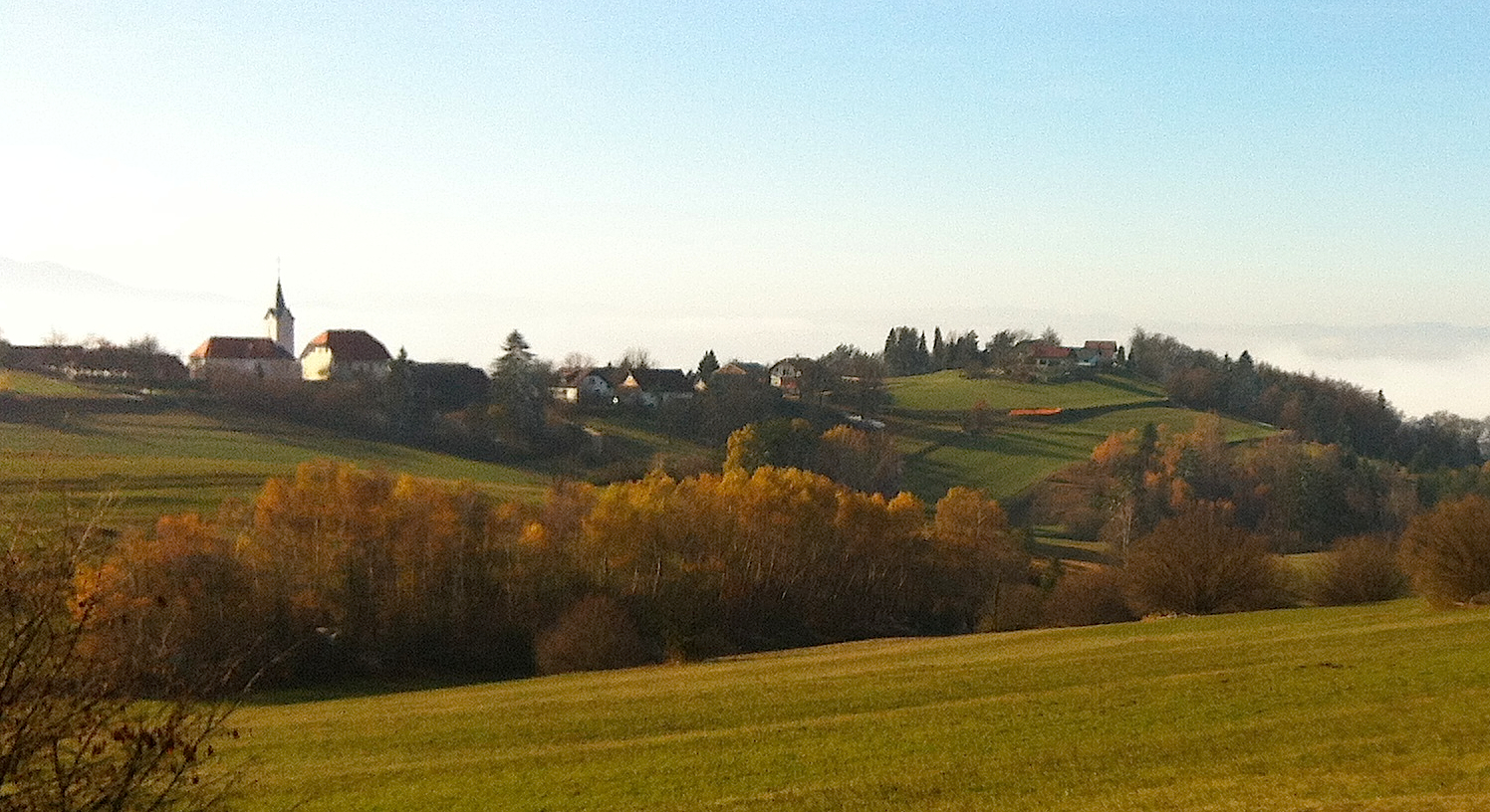 Mali Lipoglav, village in Slovenia